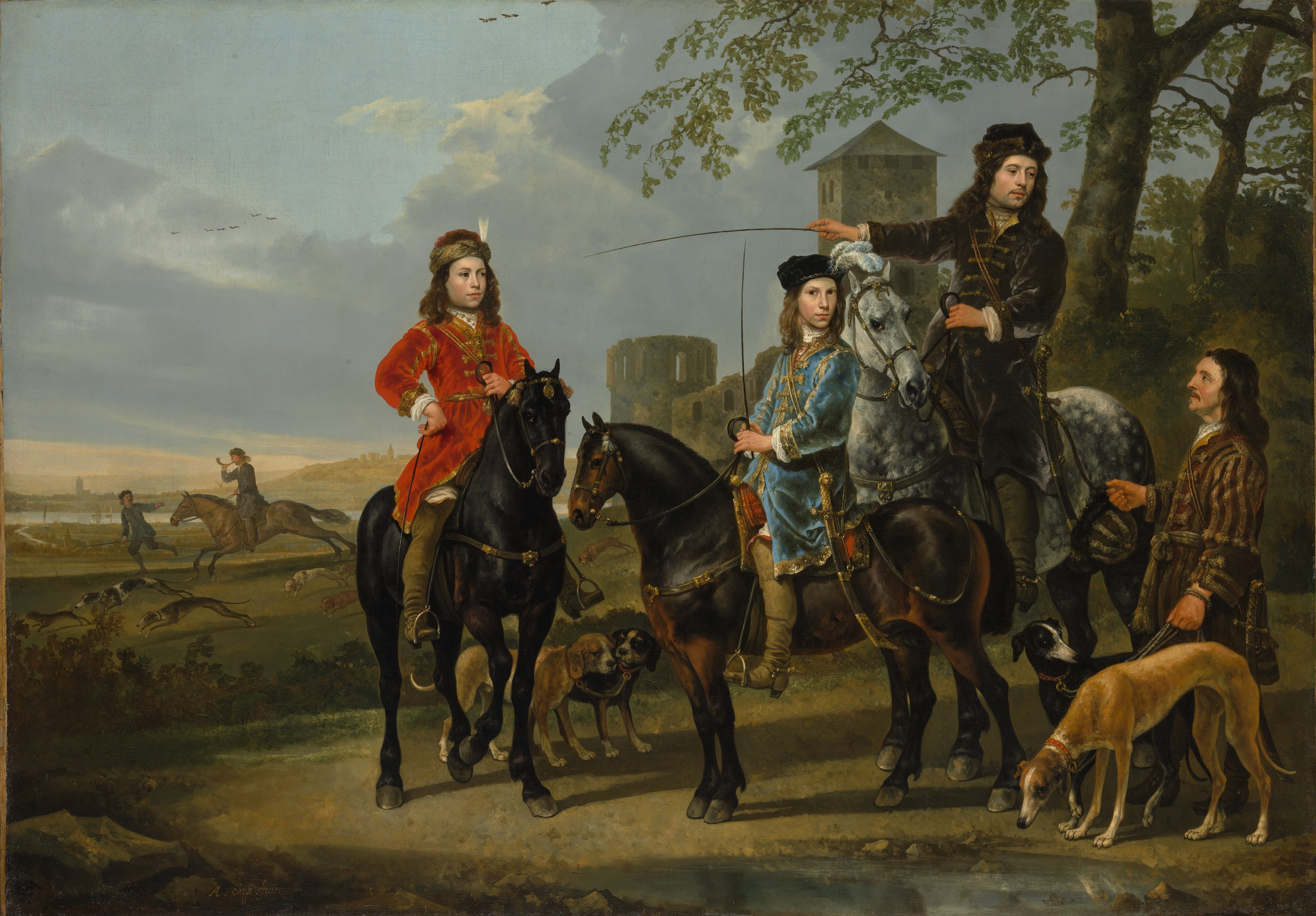 Equestrian Portrait of Cornelis and Michiel Pompe van Meerdervoort with Their Tutor and Coachman is an equestrian portrait by Aelbert Cuyp, now held by the Metropolitan Museum of Art. This portrait is an early example of an equestrian portrait of someone who was not a member of court.